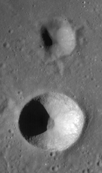 Lunar craters Biot (lower; diameter is 13.0 km) and Biot C (upper). Photo by Lunar Reconnaissance Orbiter, made with Wide Angle Camera 20 January 2011 from altitude 38 km on wavelength 604 nm. Sun elevation is 21.55°. Part of the image M150184681CE. The brightness is slightly increased.Resolution is 52.99 m/pixel, width of the photo is 18.9 km.